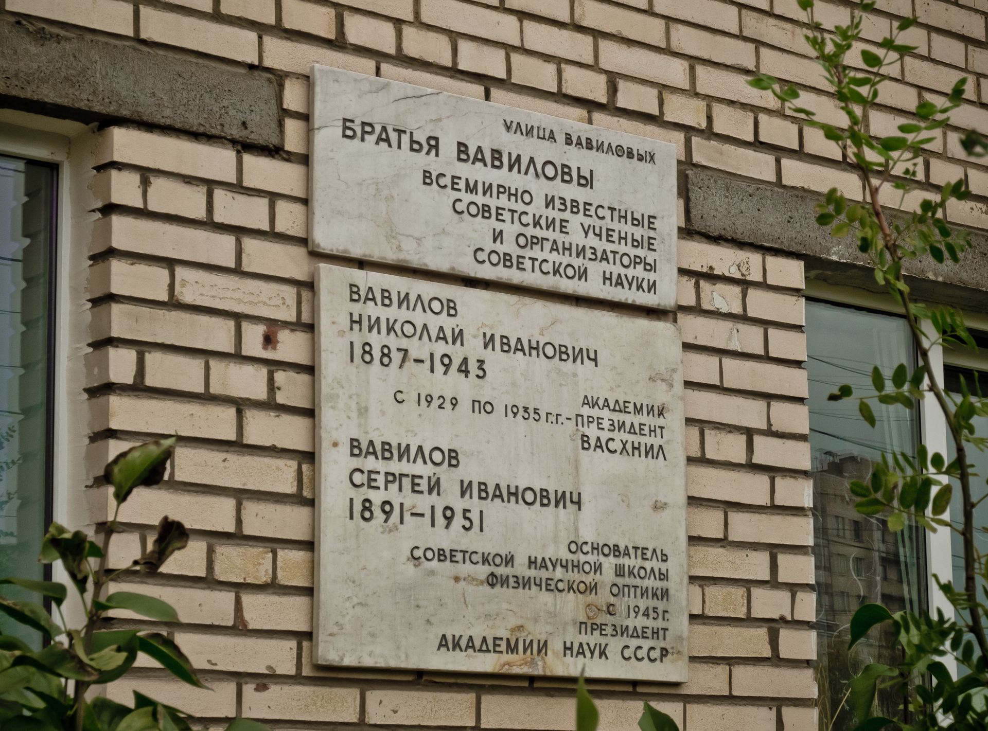 Spb Vavilovykh street memorial board